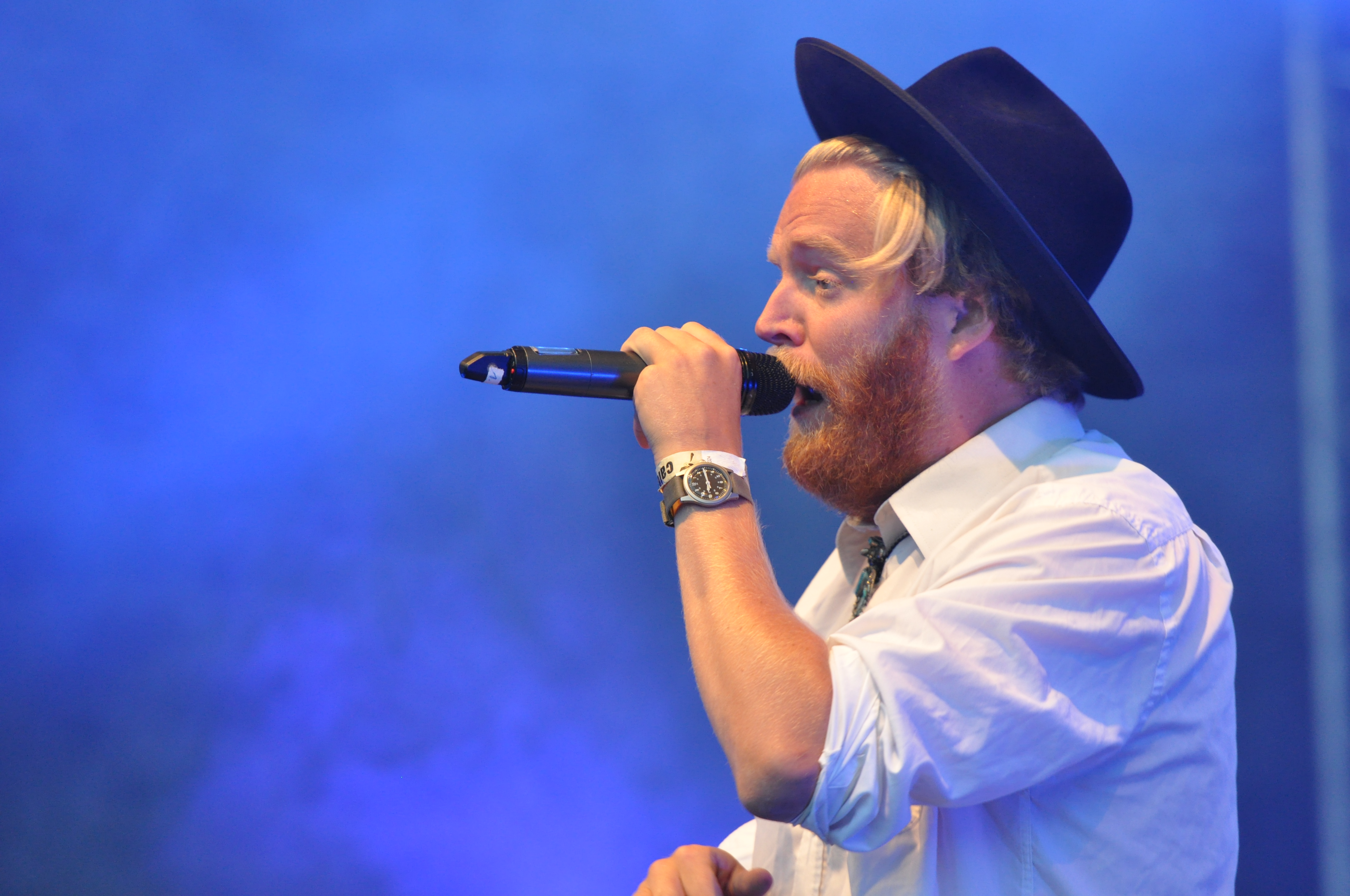 Movits! (SE), appearance at the 12th World Music Festival "Horizonte" 2014 at the fortress of Ehrenbreitstein, Koblenz (Germany)